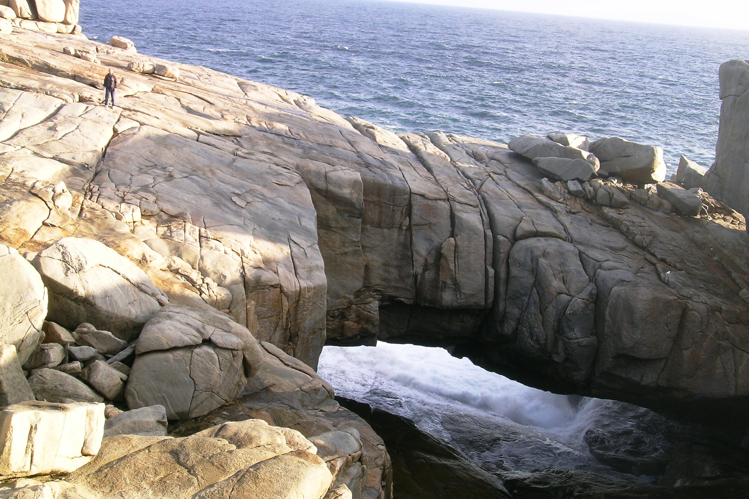 Albany, Westarn Australia, natural "bridge" with human figure showing the size of the rock formation